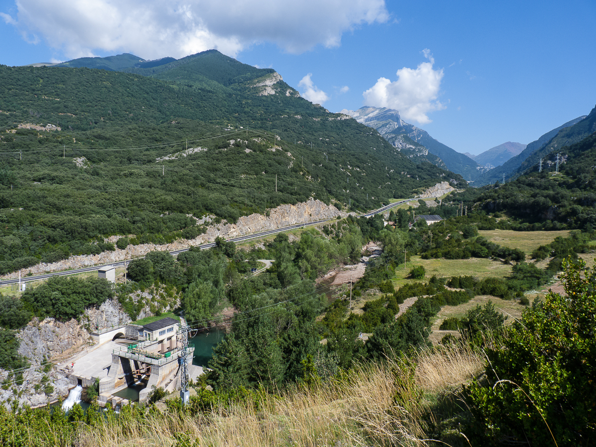 18082013 114127 PIRINEO 18454 This is a photography of a Special Area of Conservation in Spain with the ID: ES2410017. Natura2000 entry, EEA entry